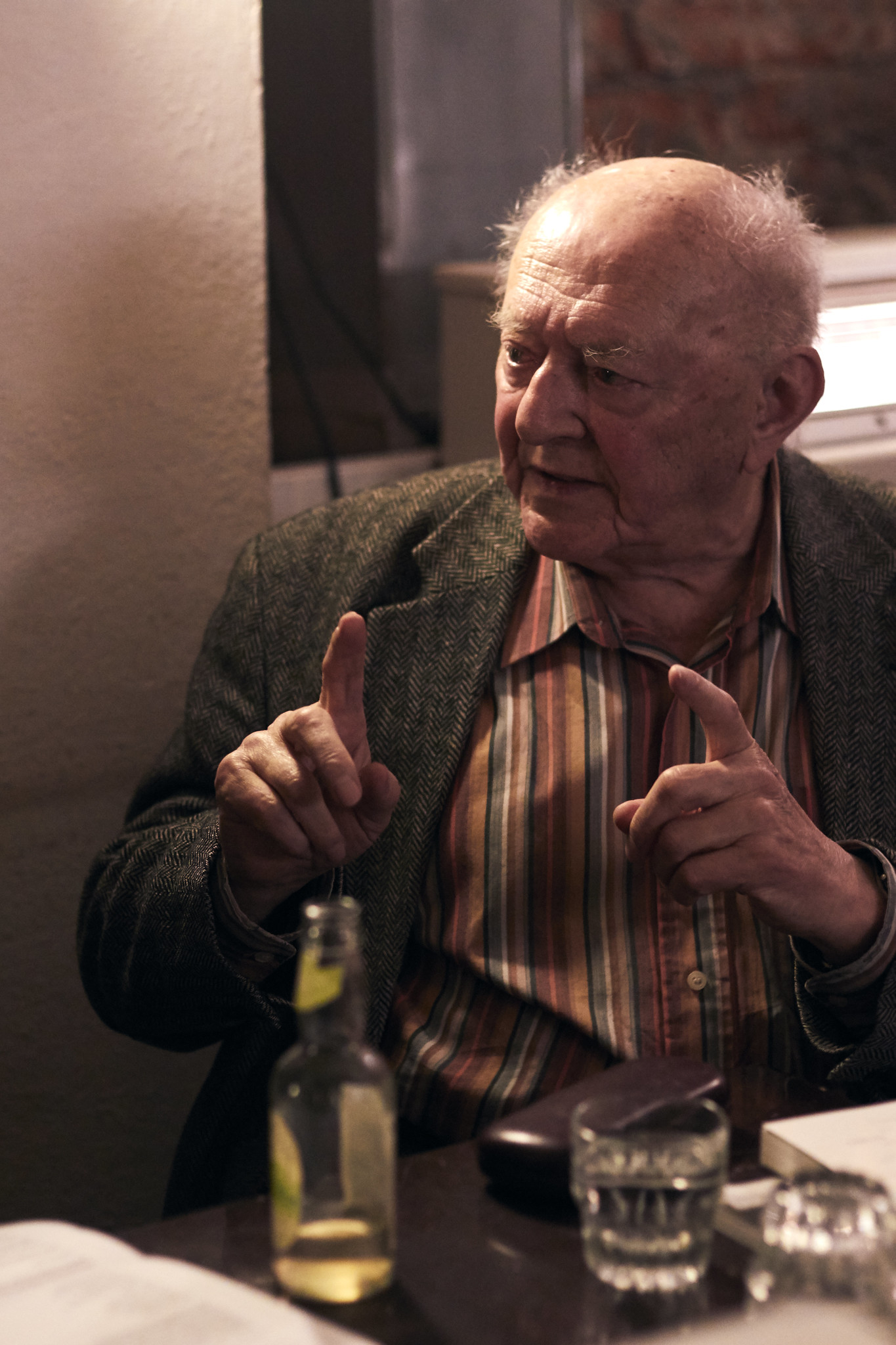 Vladimír Mikeš during a literary event in Café Fra, Prague, 2019.